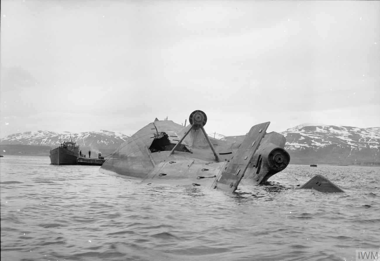 Royal Air Force Bomber Command, 1942-1945. The German battleship TIRPITZ, lying capsized in in Tromso fjord, attended by a salvage vessel. The already damaged ship was finally sunk in a combined daylight attack by Nos. 9 and 617 Squadrons RAF on 12 November 1944, (Operation CATECHISM). The hole in the hull by the starboard propeller shaft was cut by the Germans to allow access to salvage crews.